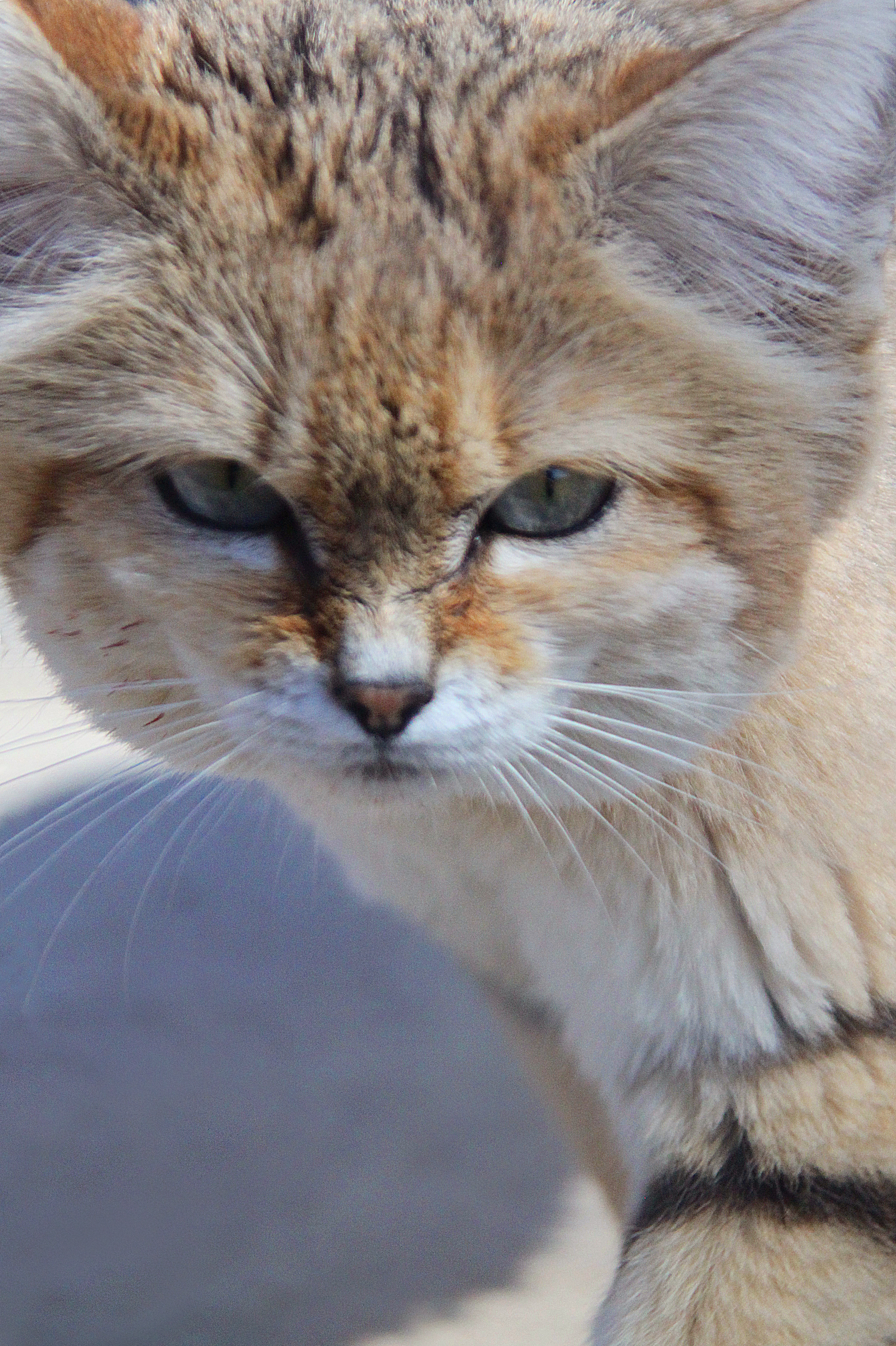 Sand cat (Felis margarita). Captured at Ree Park - Ebeltoft Safari, Denmark.